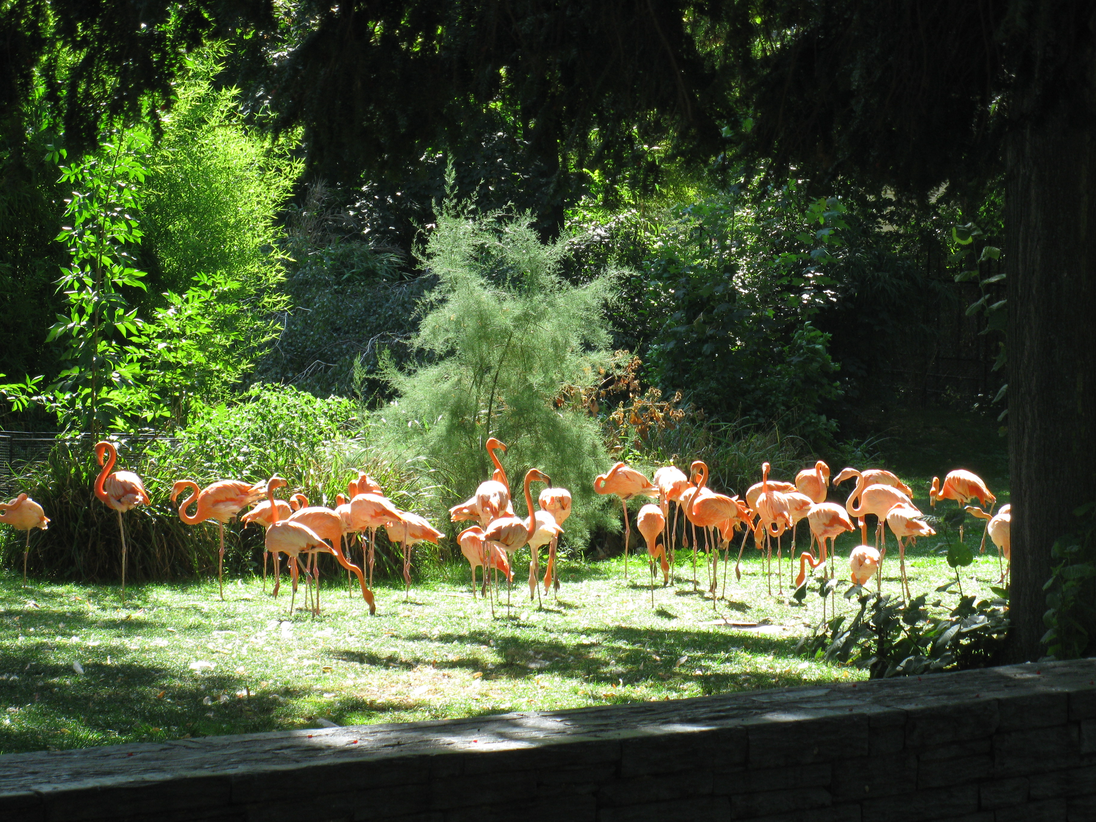 Flamingos, Muséum National d'Histoire Naturelle, Paris.